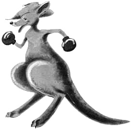 Agra, India, c. 1943-44. A sign featuring a boxing kangaroo wearing a slouch hat is painted on the nose of an RAF Consolidated Liberator B-24 bomber aircraft flown by an RAAF crew. The paint used in this example of nose art was of a very light (desert) variety. (Donor R. Lichty)